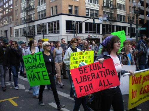 About 200 people staged a pro-LGBT protest in downtown Portland to advocate for legalization of same-sex marriage.